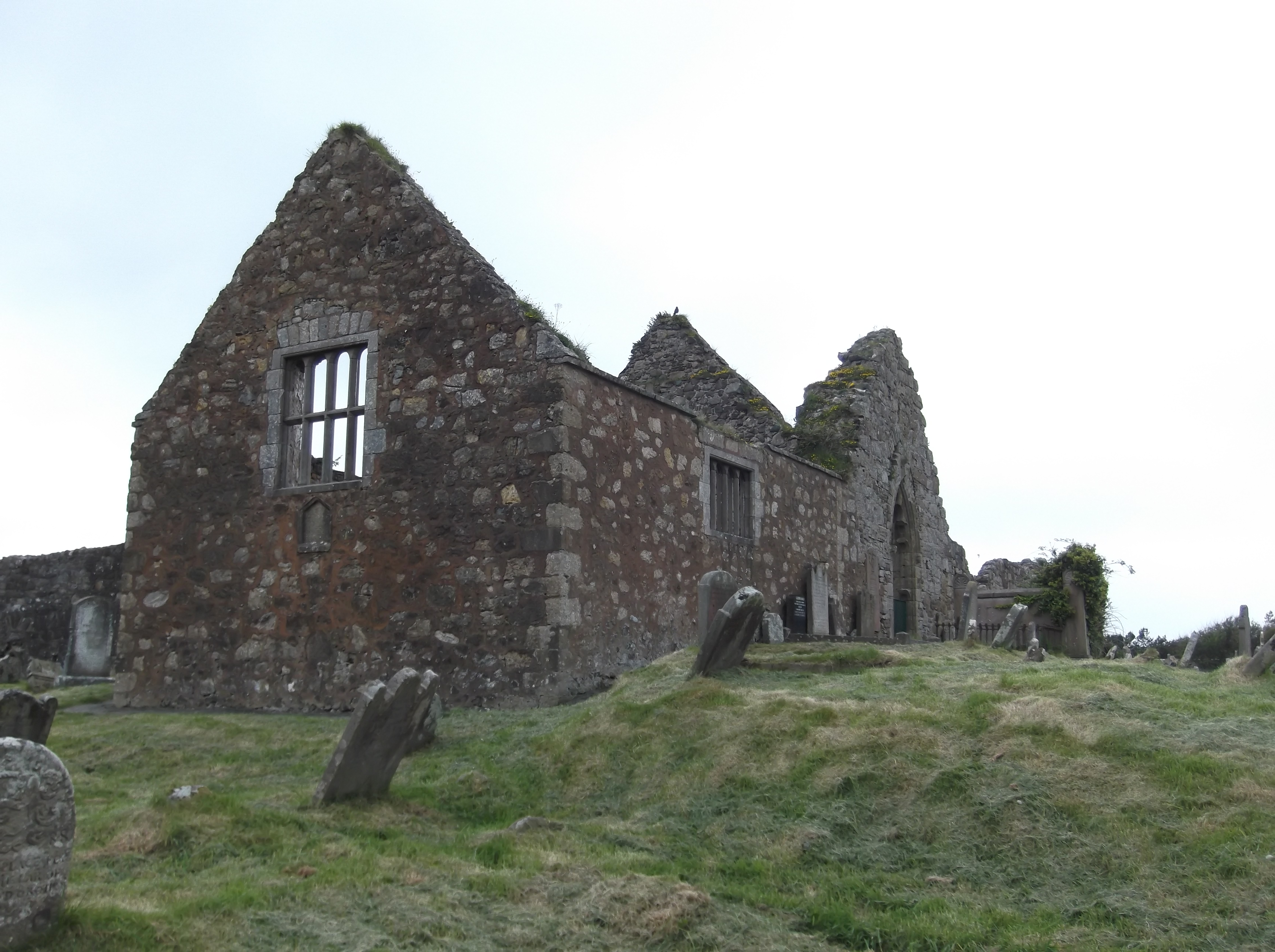 Photograph of the remains of Bonamargy Friary, Co. Antrim, Northern Ireland